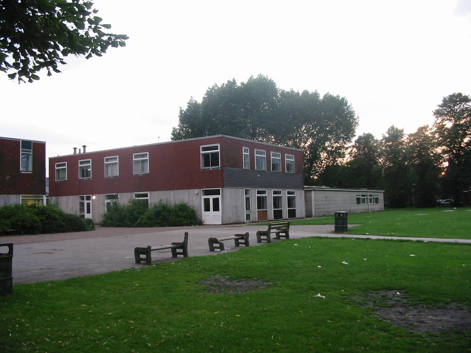 Retford King Edward VI Grammar School 1979 maths and craft block before its demolition circa 2012